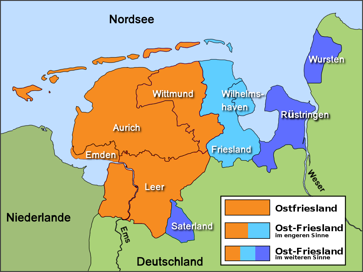 Map to show the difference between "East Frisia" and "Eastern Frisia".